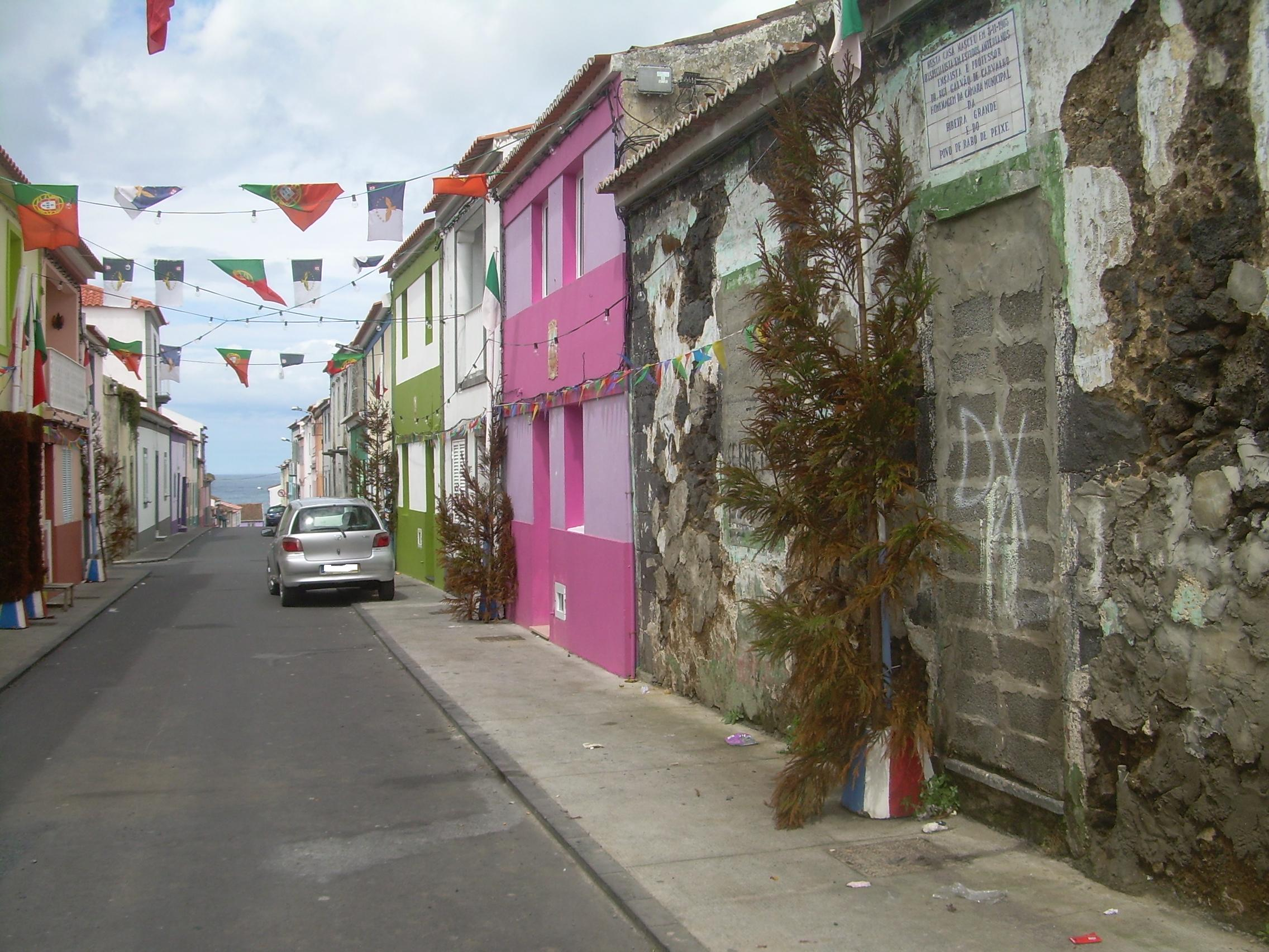 House and street were Rui Galvão de Carvalho was born.